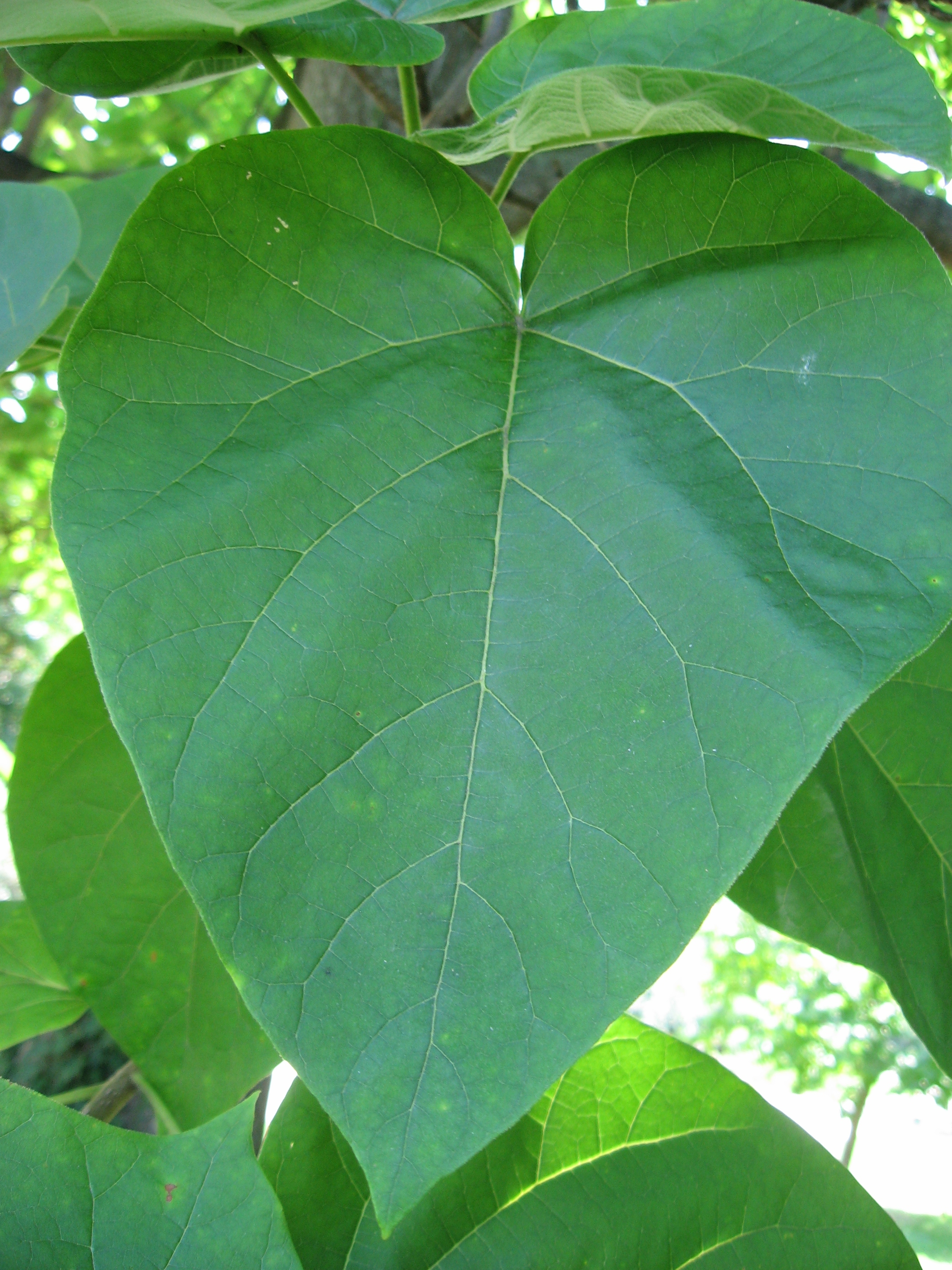 A picture of a leaf of Paulownia tomentosa.